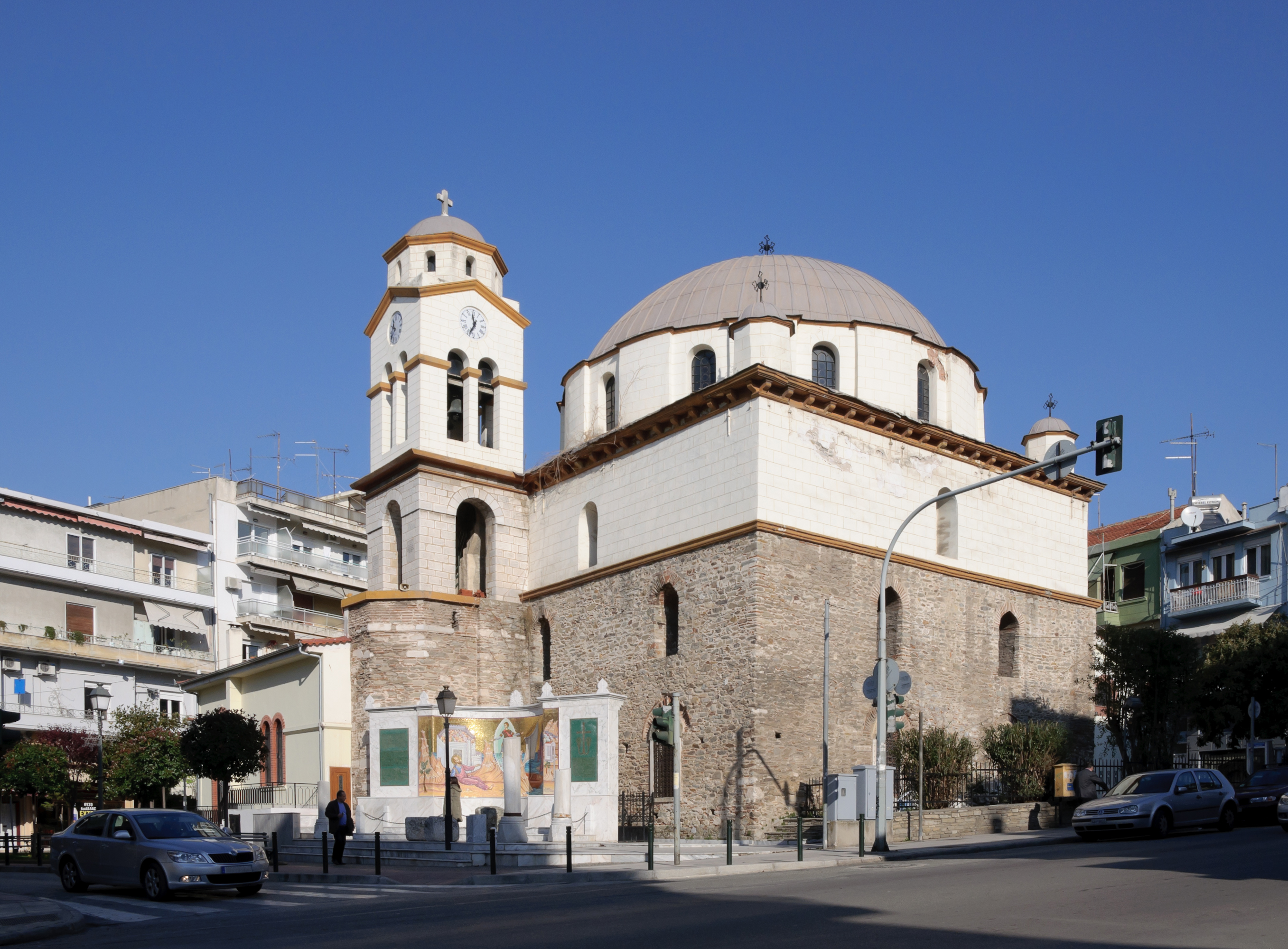 Saint Nicolas church in Kavala, Greece.